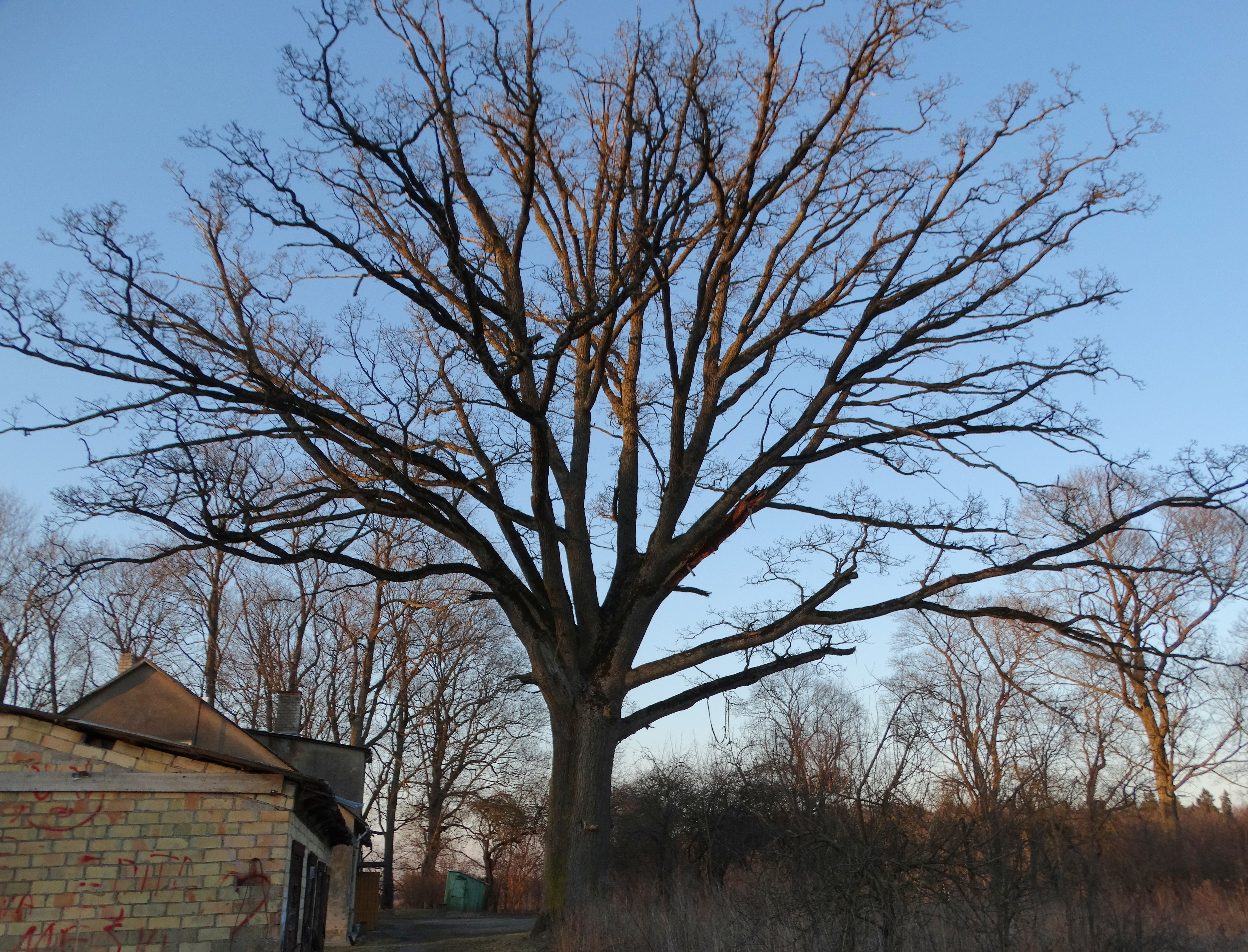 Oak, Milvydai, Šiauliai district, Lithuania